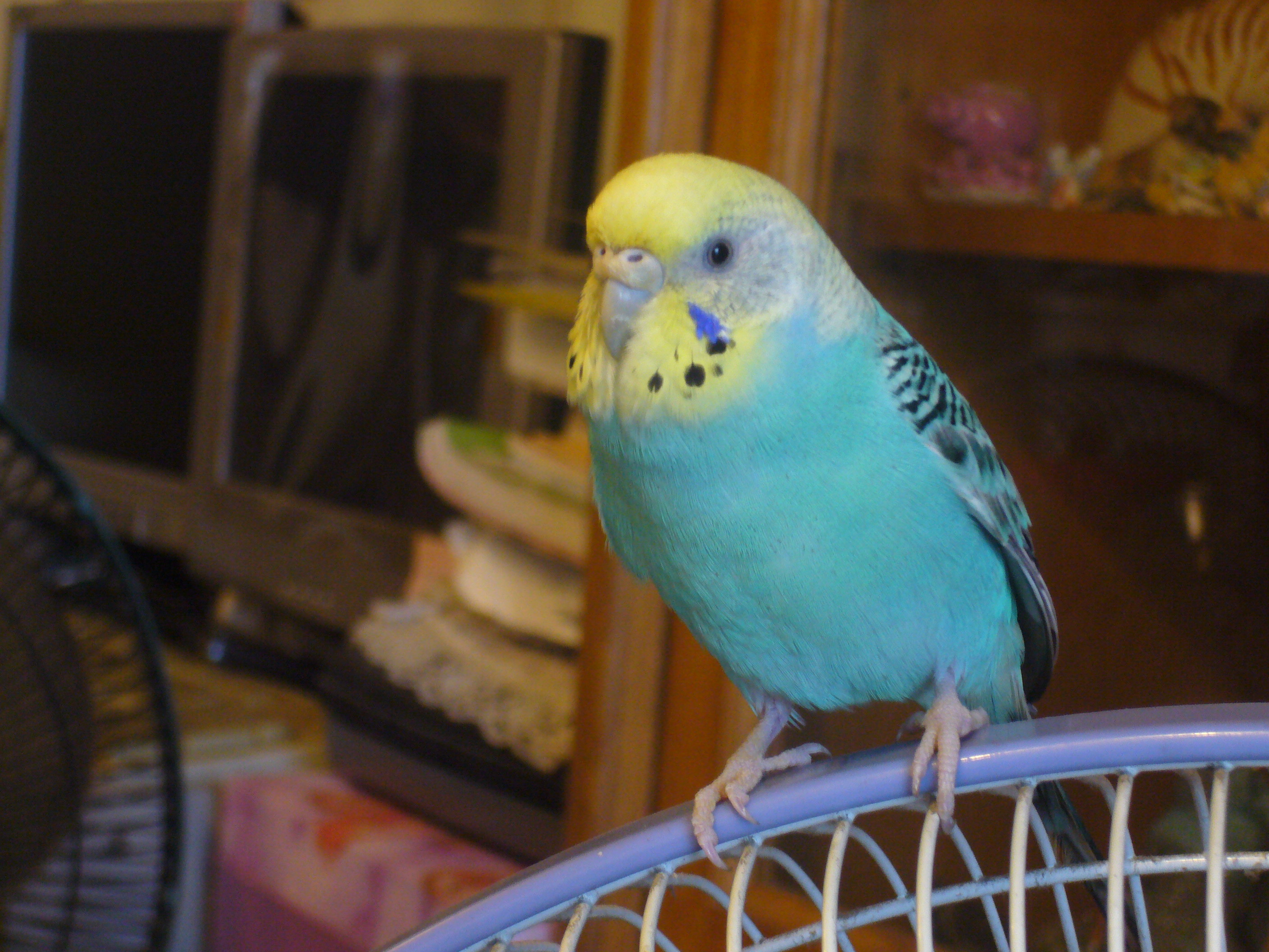 this is my pet